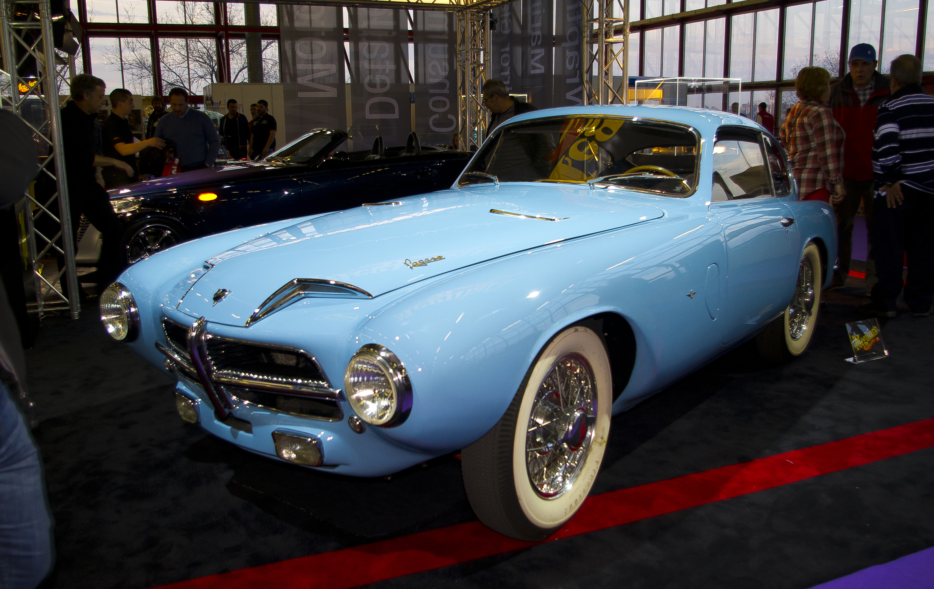 Why oh why did you have to quit making sports cars Pegaso? Z-102 B Berlineta Touring Series 1